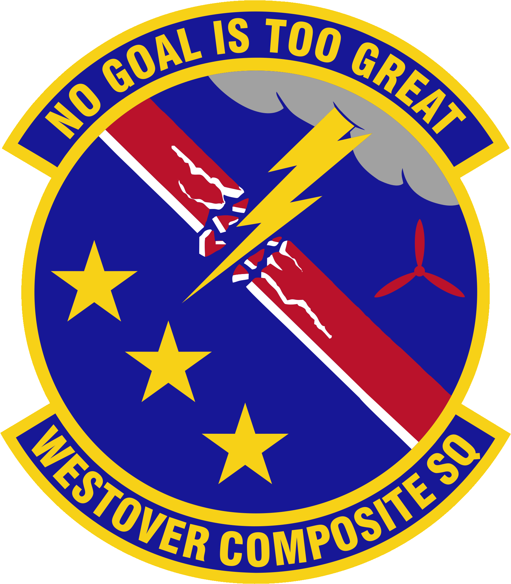 Squadron Emblem & uniform patch